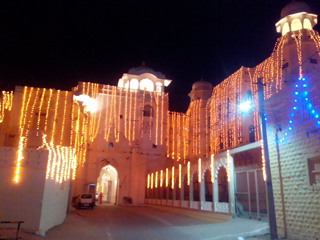 Entry and Night View of Temple & Palace of Bilara